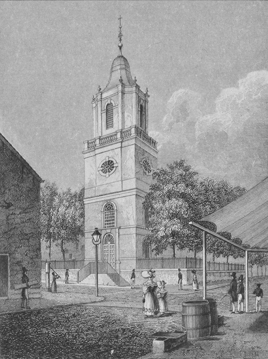 St. Peter's Church, south side of Barclay Street at east corner of Church Street, New York City